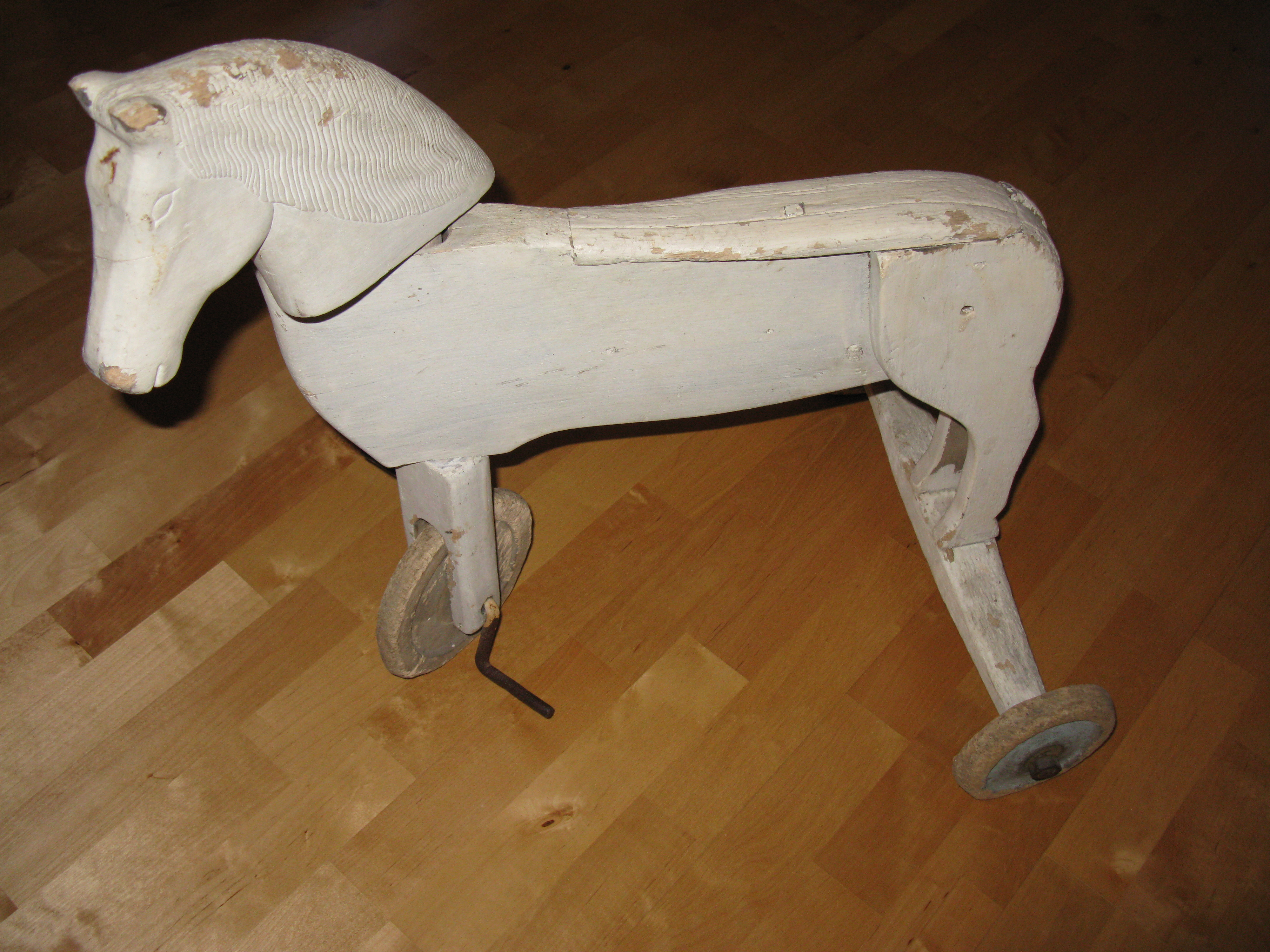 a self-made wooden toy horse from Finland.